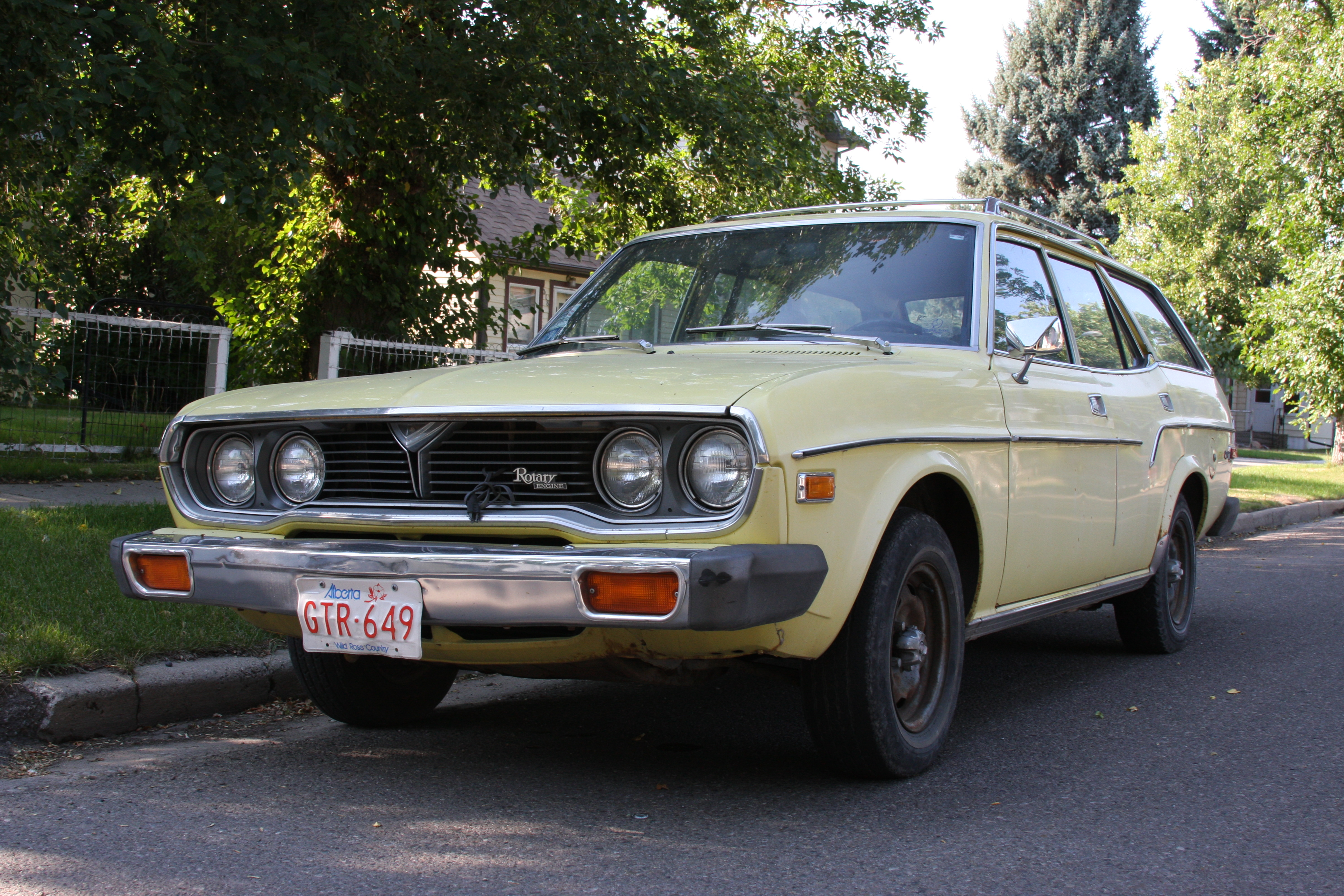 Street find of the day - a Mazda Rx-4 Wagon. This one seemed to be in fantastic shape. The big bumpers seem to peg it as a 1974 model.